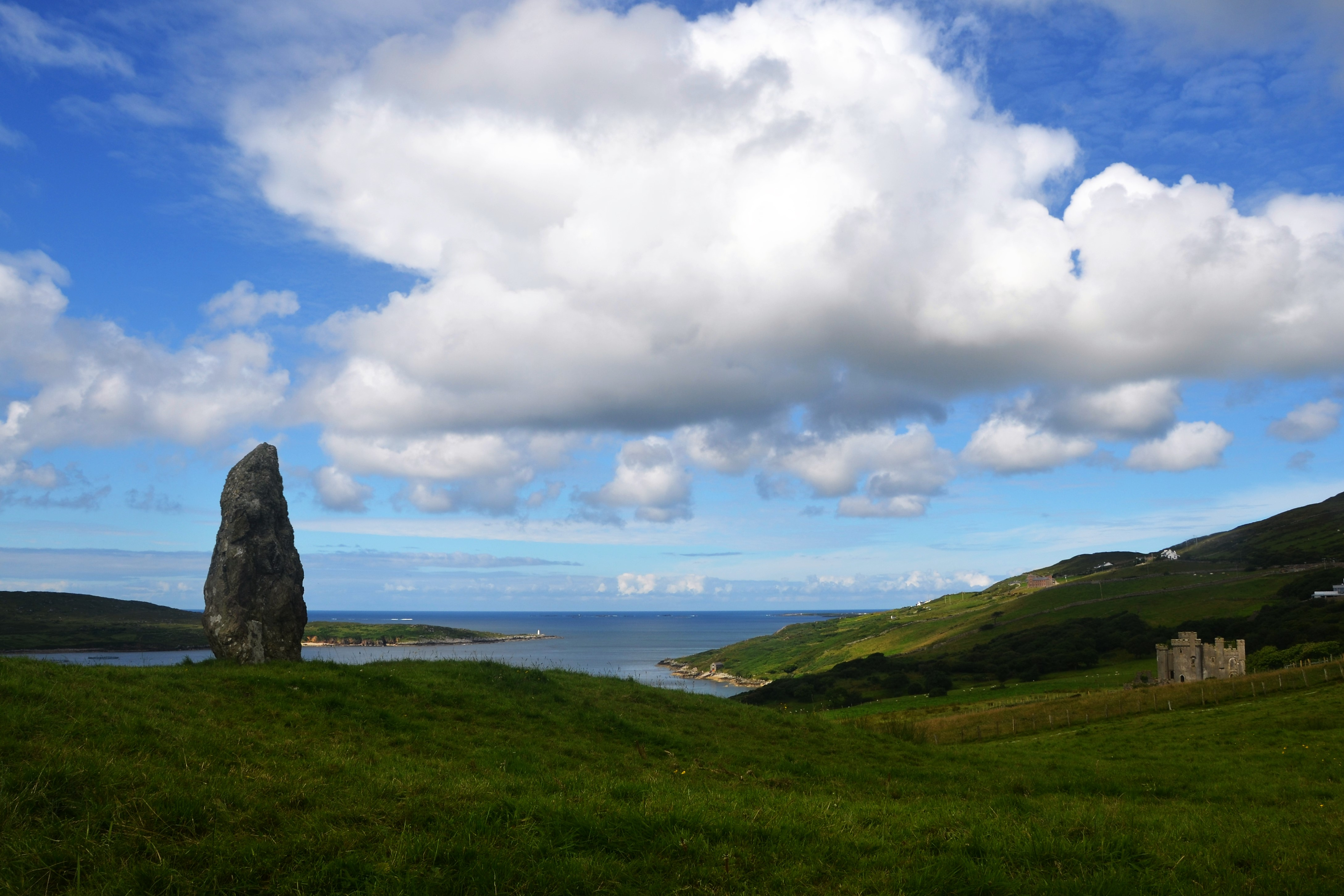 Clifden Castle in Clifden, Co. Galway, Ireland.